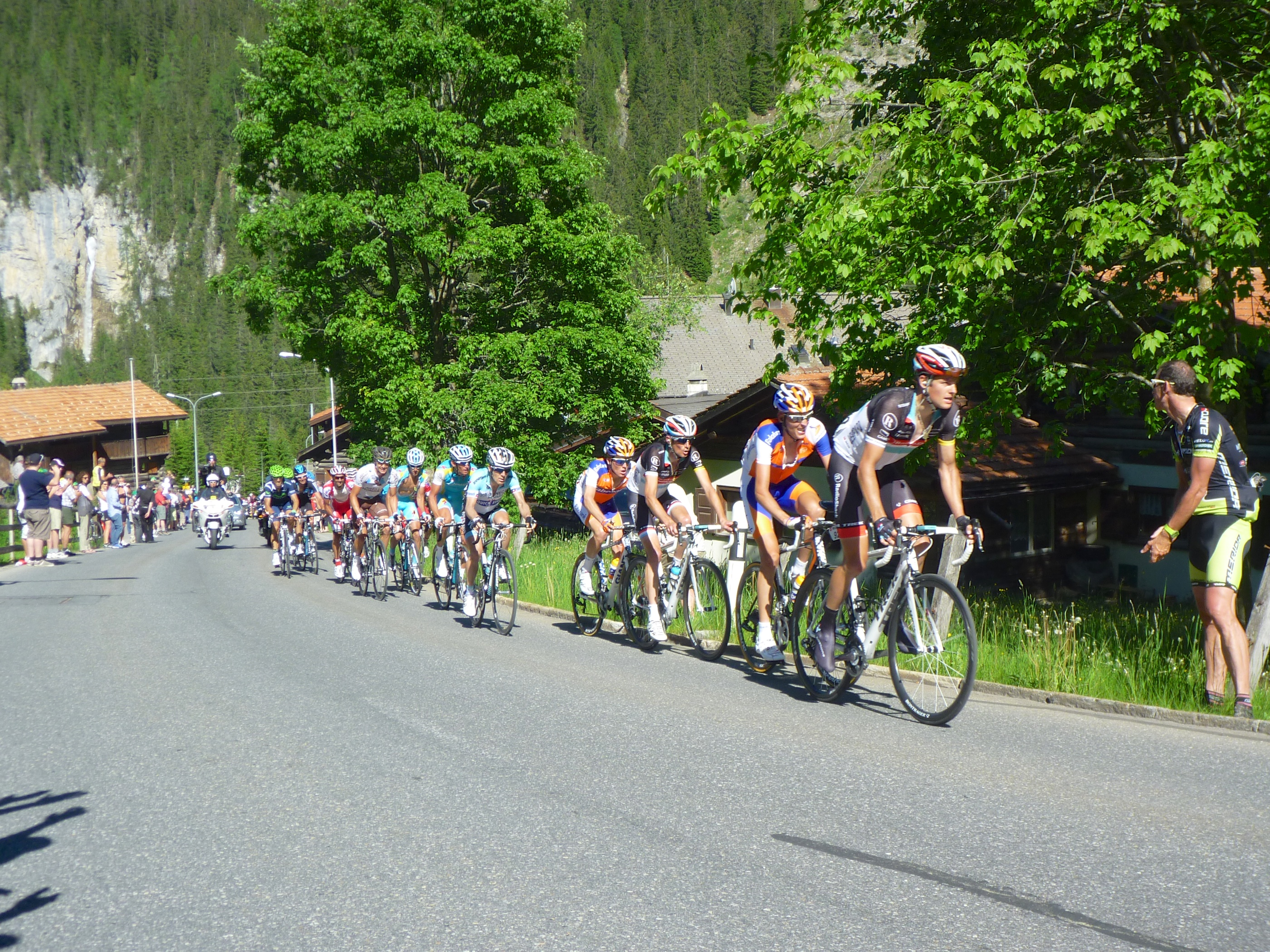 Tour de Suisse 2012 at Litzirüti near Arosa